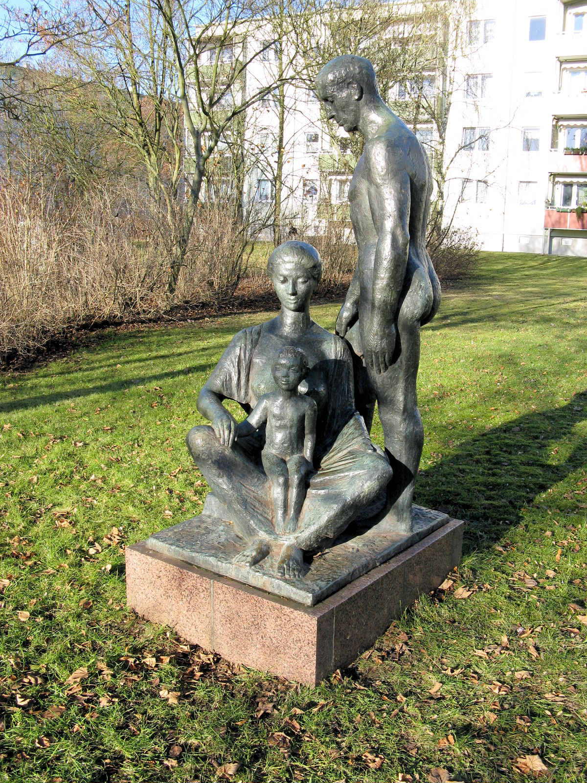 Family sculpture in Schwerin-Lankow, Mecklenburg-Vorpommern, Germany